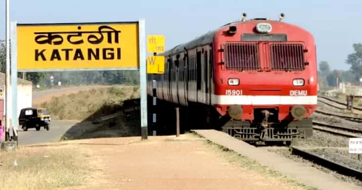 A demu train in katangi railway station